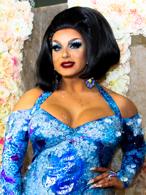 Alexis Michelle at RuPaul's DragCon LA 2018